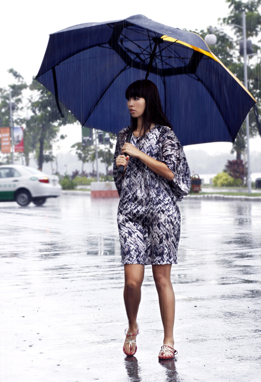 fashion: Axaray from paris